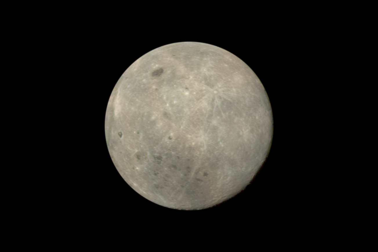 Far side of the Moon, original image by NASA's Deep Space Climate Observatory, processed by the uploader. See also File:Moon Nearside ISS44.PNG.